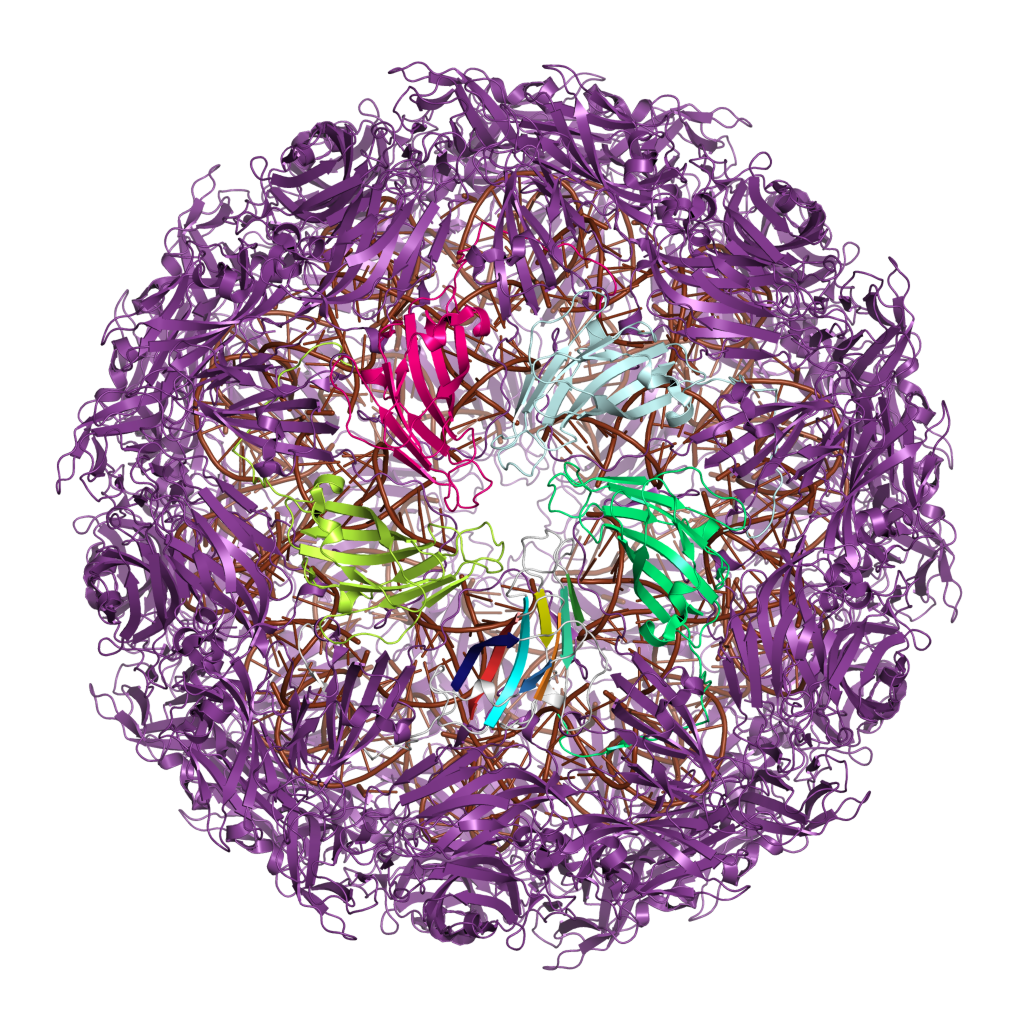 A complete capsid of the satellite tobacco mosaic virus, centered on one of the five-fold symmetry axes. One monomer of the highlighted pentamer is colored as in File:4oq9 chainA jellyroll.png (bottom). The other four monomers are colored (clockwise from bottom left) yellow, pink, light blue, light green. The remaining protein chains are colored purple. In the interior of the capsid is RNA, colored brown, corresponding to a portion of the virus' genome. Rendered using PyMol from PDB ID 4OQ9: Larson SB, Day JS, McPherson A. (2014). Satellite tobacco mosaic virus refined to 1.4 Å resolution. Acta Crystallogr D Biol Crystallogr. 2014 Sep 1; 70(Pt 9): 2316–2330. DOI 10.1107/S1399004714013789